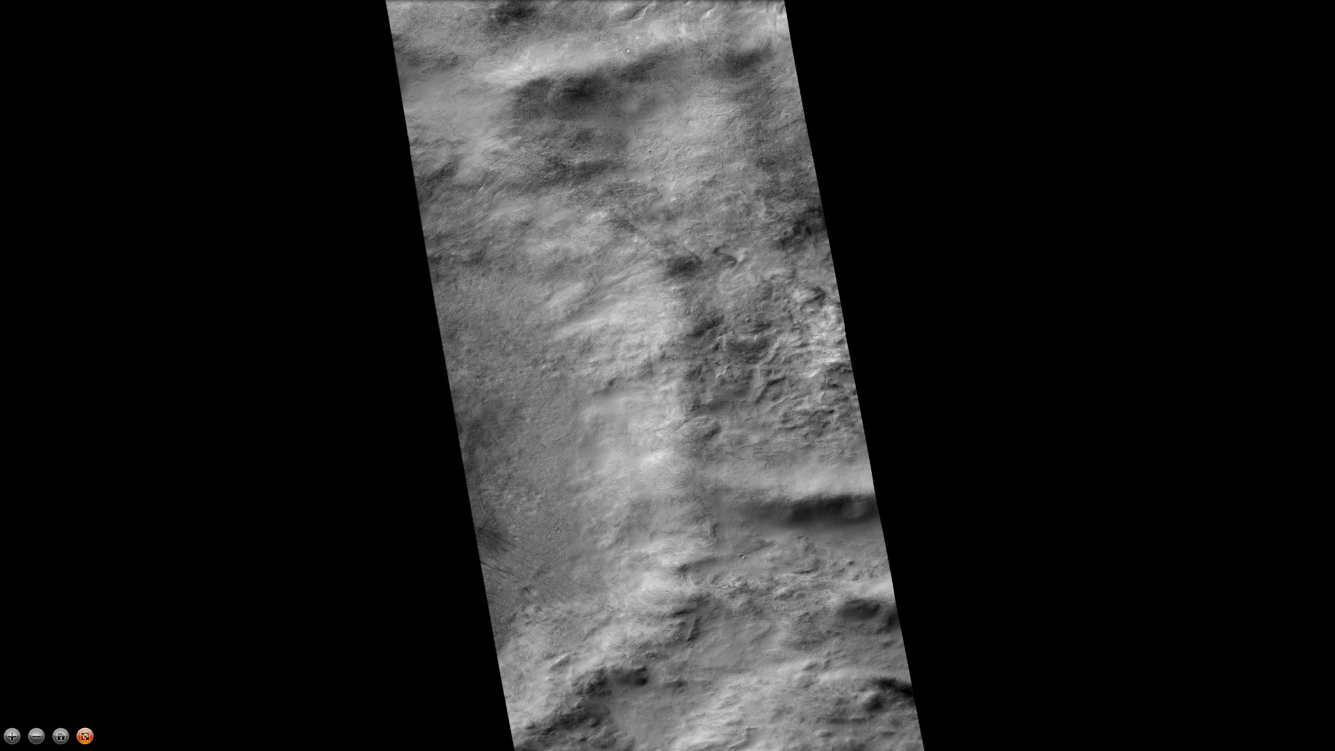 East side of Halley Crater, as seen by ctx